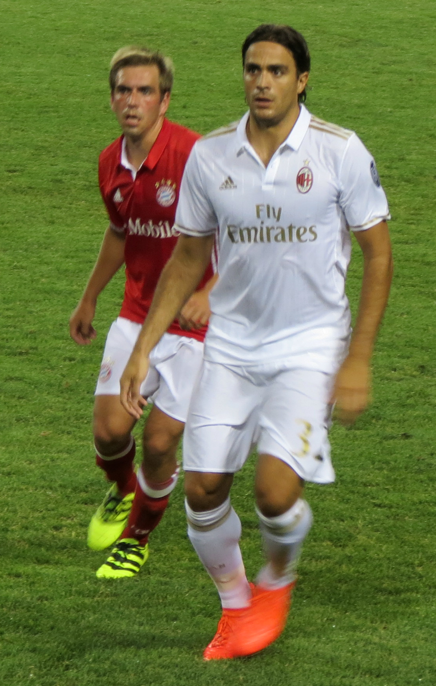 Alessandro Matri, 2016 International Champions Cup, Bayern v AC Milan